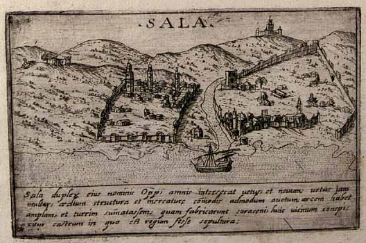 1600s map from block print of Sale Morocco